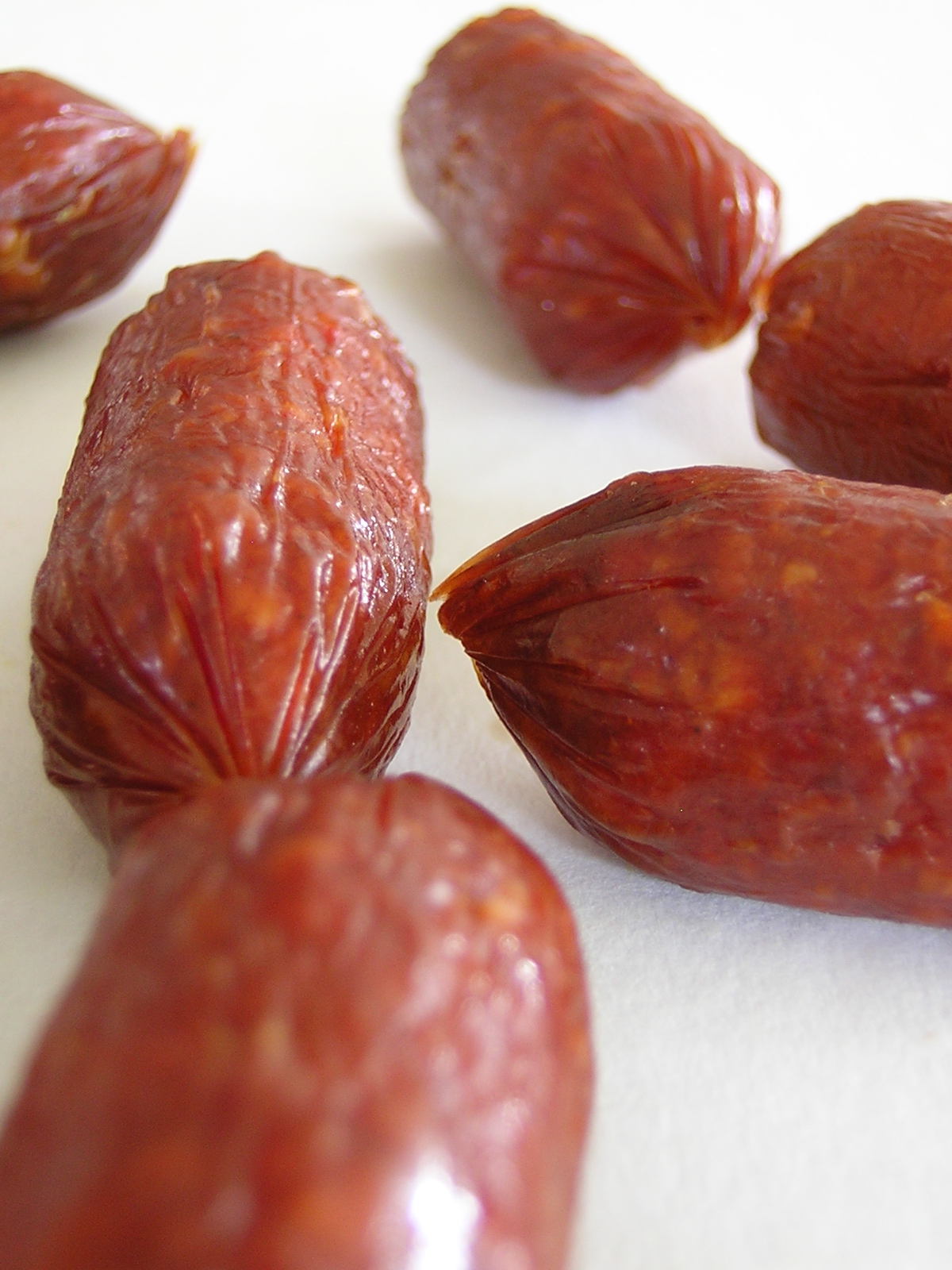 "Beer sausage". I.e. a snack accompanying beer.